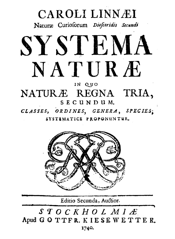 Systema Naturae. 2nd Edition, Titelpage